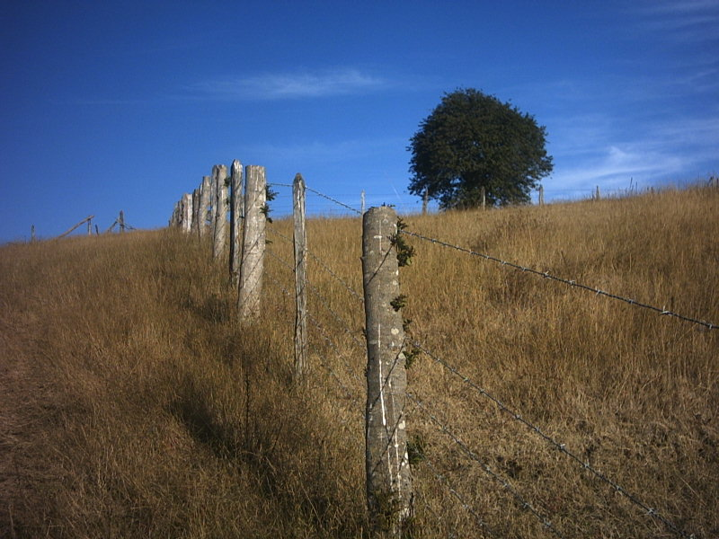 Cunco sector huichahue